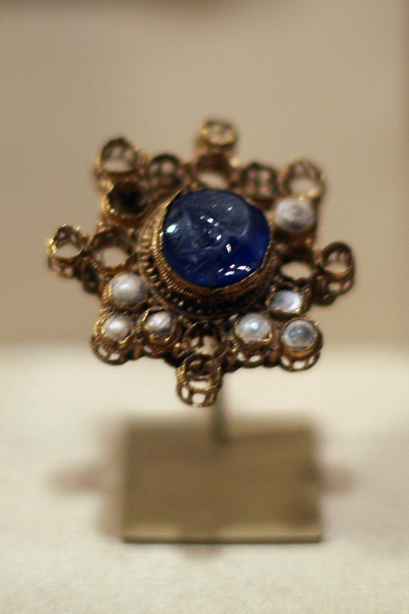 Star-Shaped Brooch with Intaglio, second half of 10th century (setting); intaglio A.D. 337-350 Ottonian (Rhineland (?)); Byzantine (intaglio) Star sapphire, pearls, gold; Overall: Diam. 4 11/16 x 3/4 in. (Diam.11.9 x 1.9 cm) The Metropolitan Museum of Art, New York, The Cloisters Collection, 1988 (1988.15) View at the Metropolitan Museum of Art website Wikipedia Loves Art at the Metropolitan Museum of Art This photo of item # 1988.15 at the Metropolitan Museum of Art was contributed under the team name "shooting_brooklyn" as part of the Wikipedia Loves Art project in February 2009. Metropolitan Museum of Art The original photograph on Flickr was taken by shooting brooklyn—please add a comment to the original Flickr page whenever a use has been made on Wikipedia or another project. Project galleries on Flickr: this institution, this team